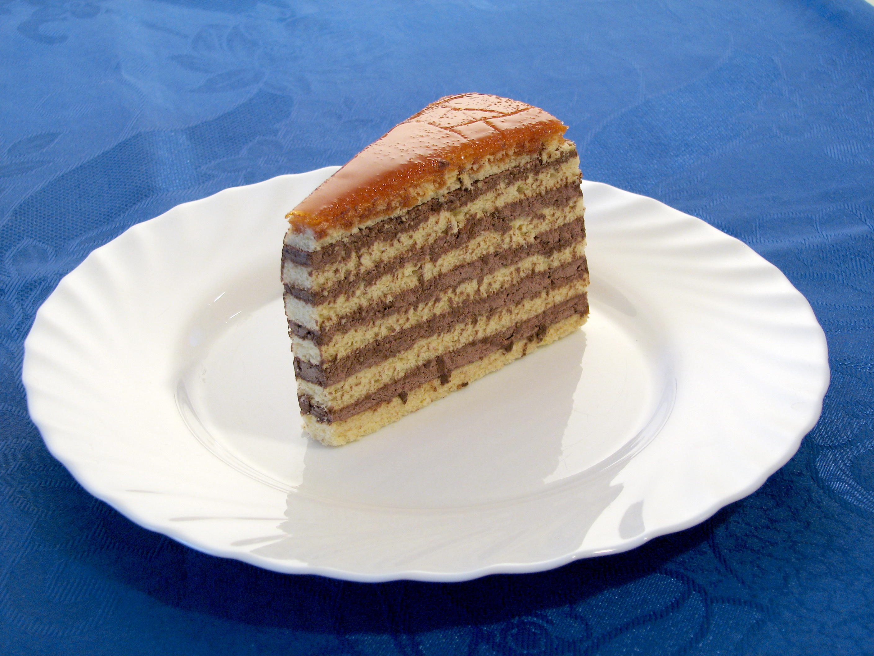 Dobos Cake, a special Hungarian cake